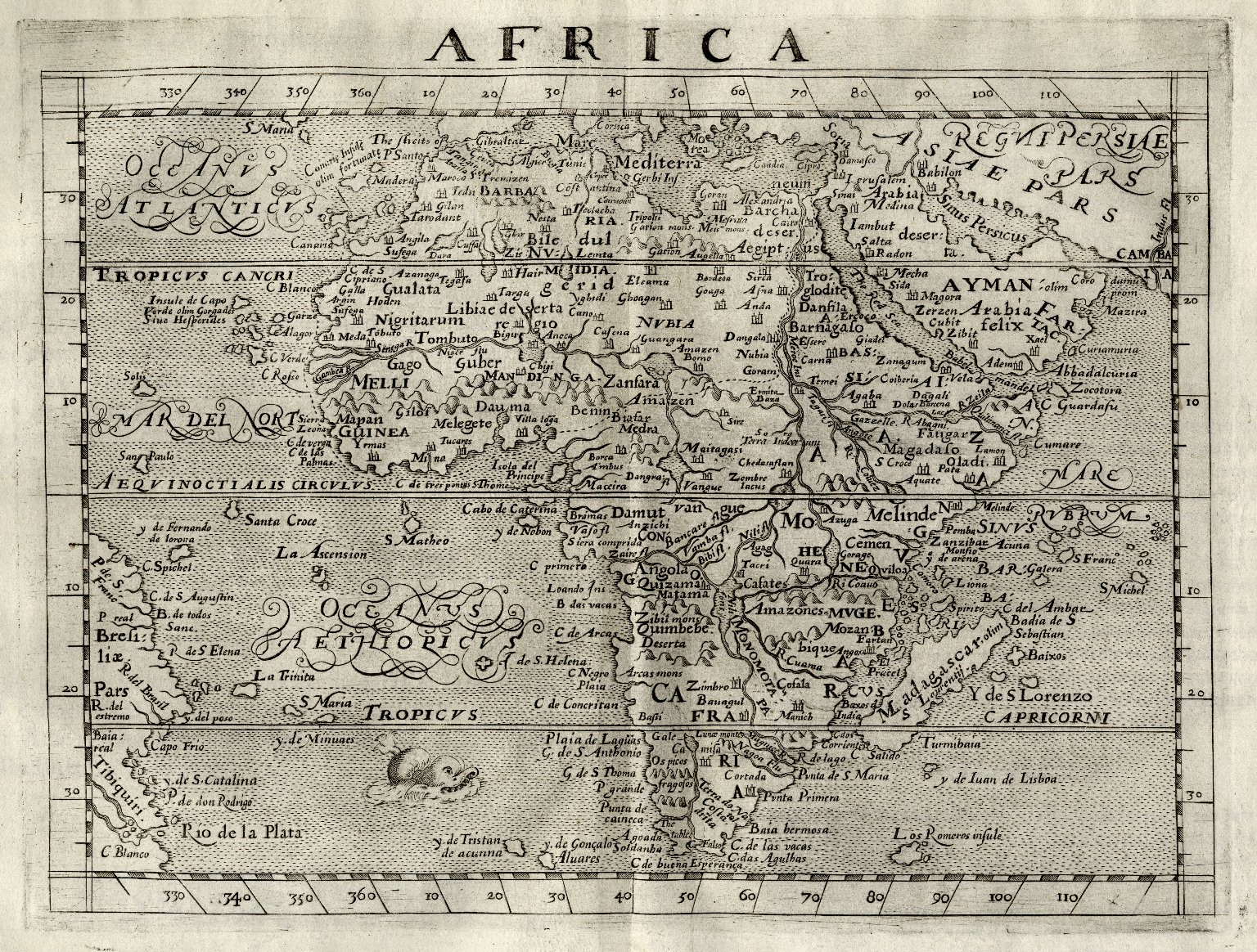 Map of Africa from Johannes Leo Africanus; John Pory (trans. & comp.) (1600). A Geographical Historie of Africa, Written in Arabicke and Italian. ... Before which... is Prefixed a Generall Description of Africa, and... a Particular Treatise of All the... Lands... Undescribed by J. Leo... Translated and Collected by J. Pory. London: George Bishop.